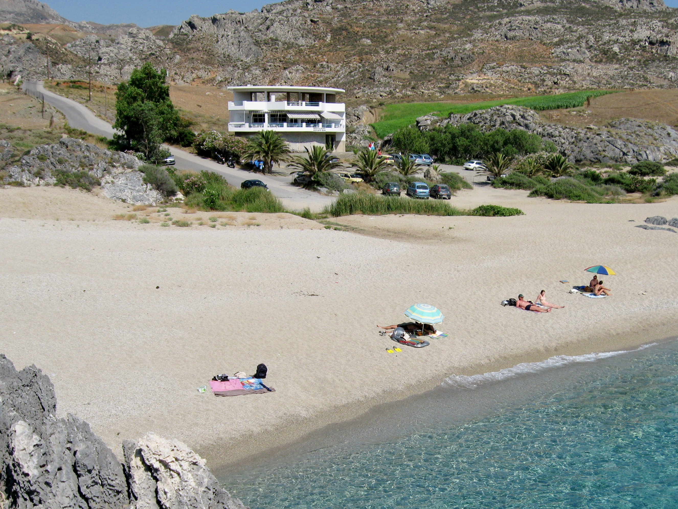 Schinaria, Finikas, Rethymno prefecture, Crete, Greece